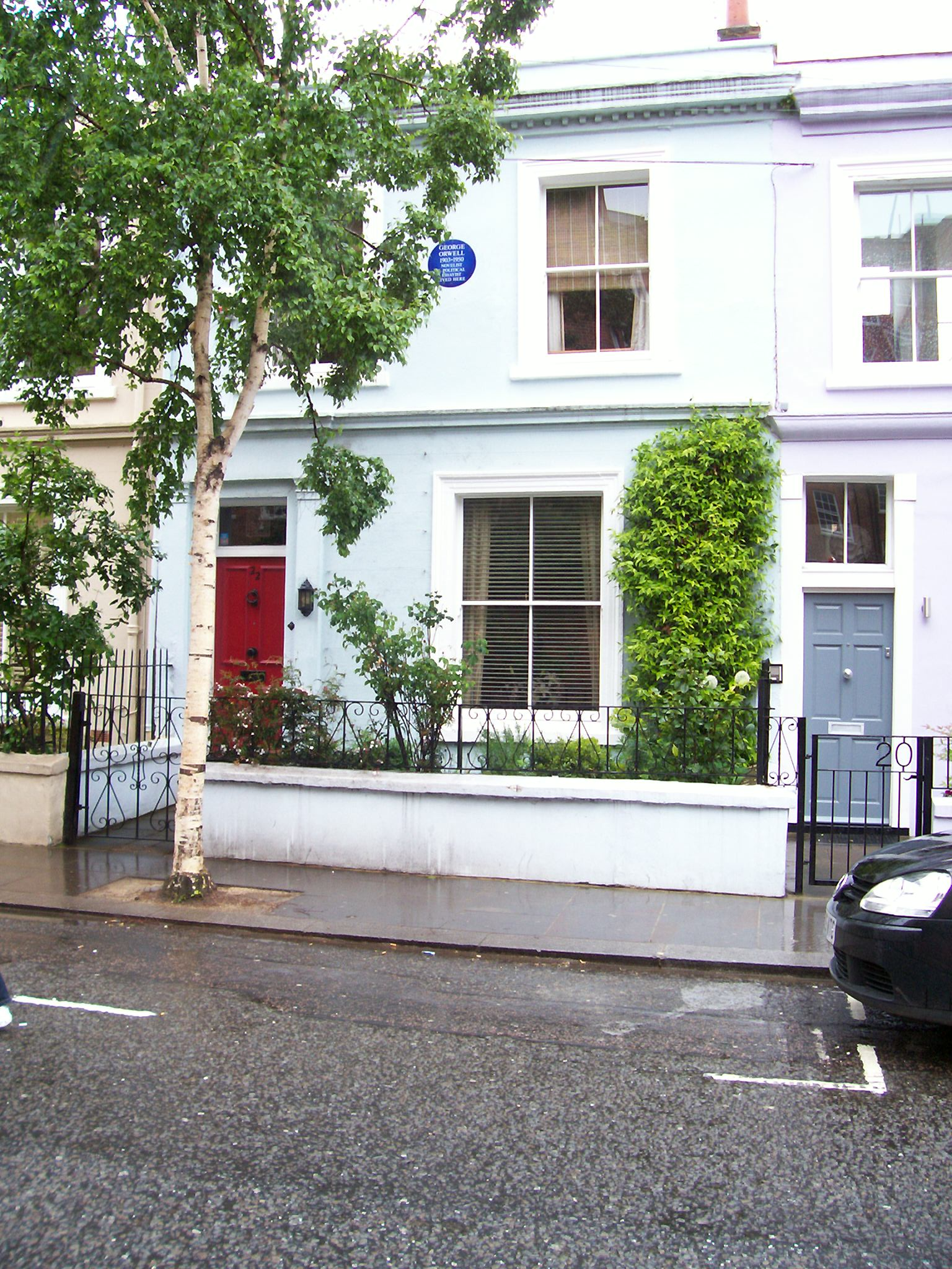 In this house George Orwell lived. Place placed in the center of Notting Hill